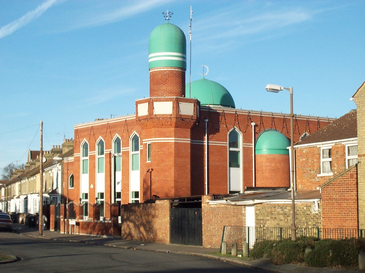 Mosque on Westbourne Road in Queens Park, Bedford, Bedfordshire.